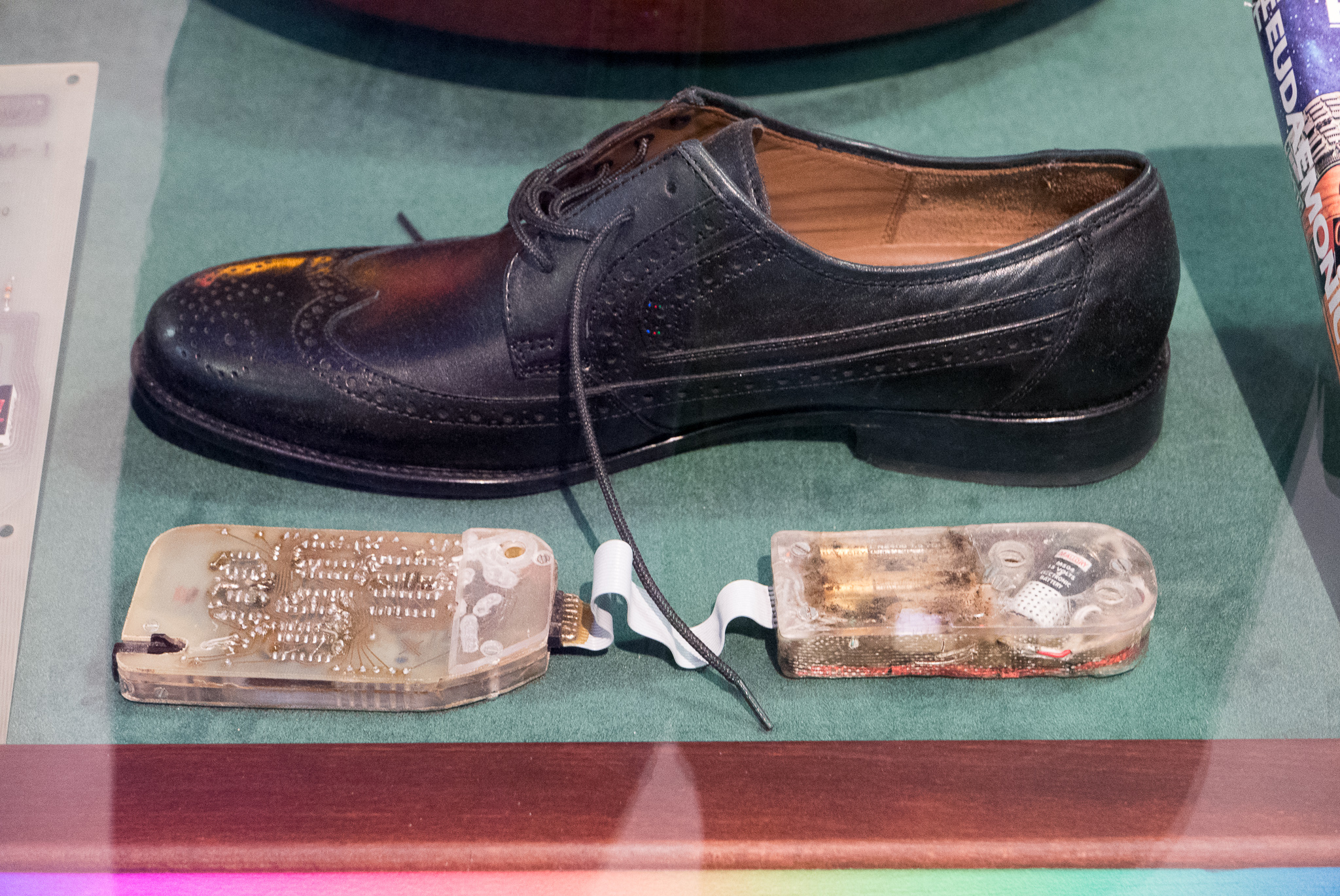 Photo of Farmer's shoe computer